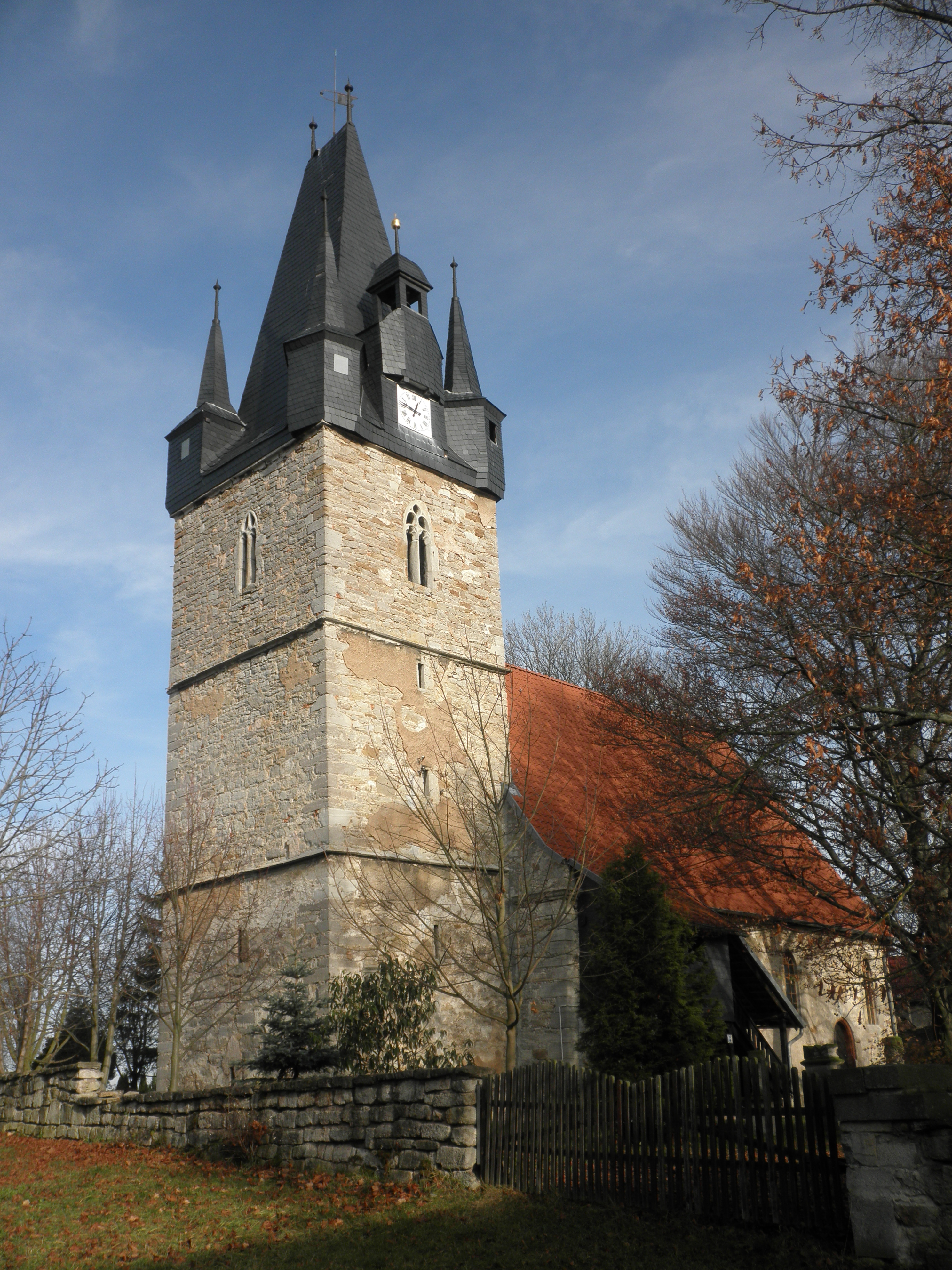 Church in Toba (Helbedündorf) in Thuringia